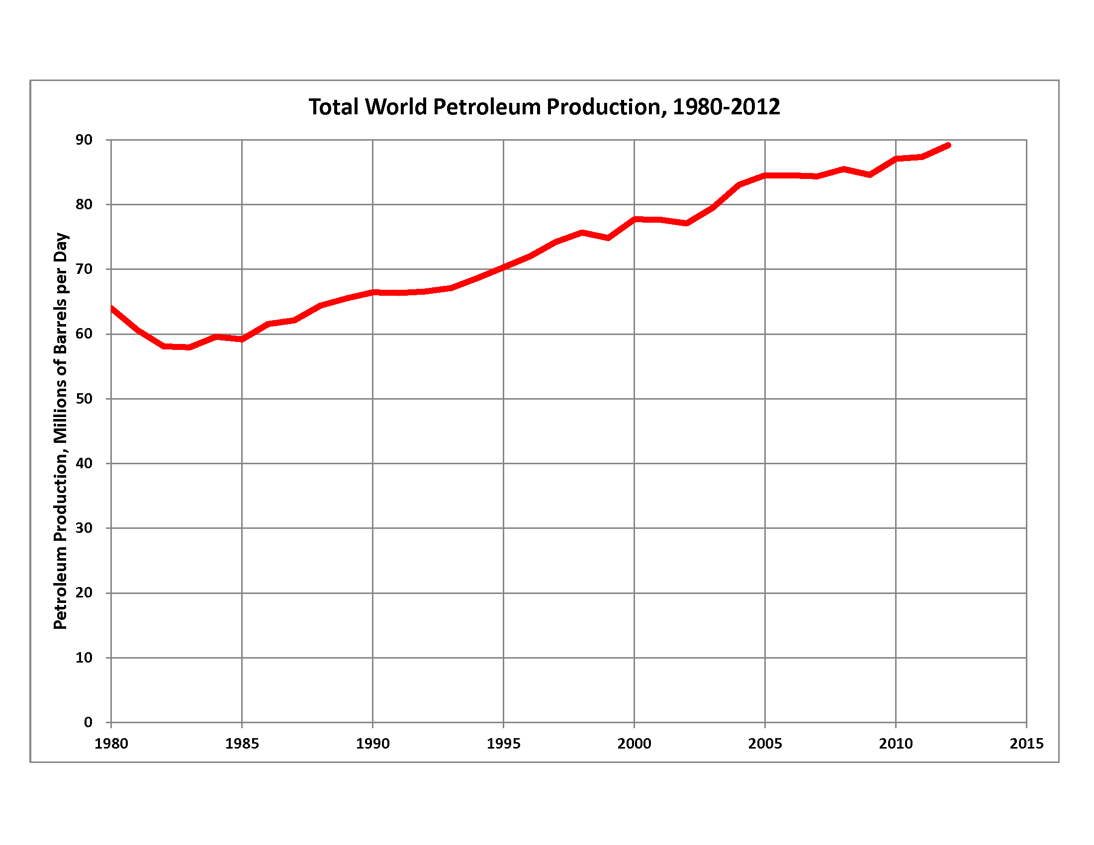 World oil production, 1980-2013